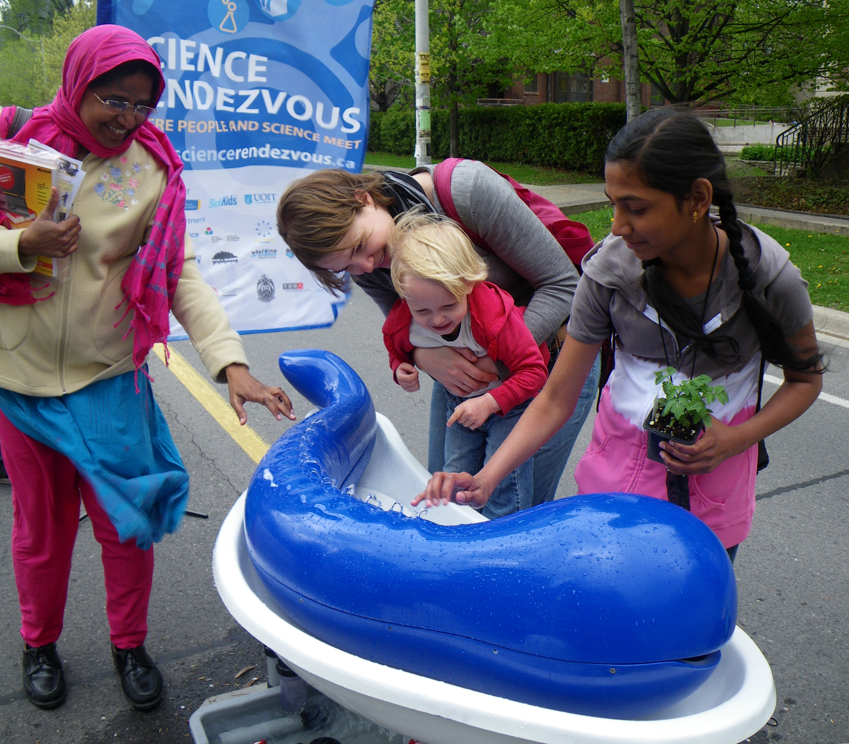 Science Rendezvous picture showing Science Rendezvous poster and one of the exhibits (hydraulophone, states-of-matter, H2Orchestra, etc.)